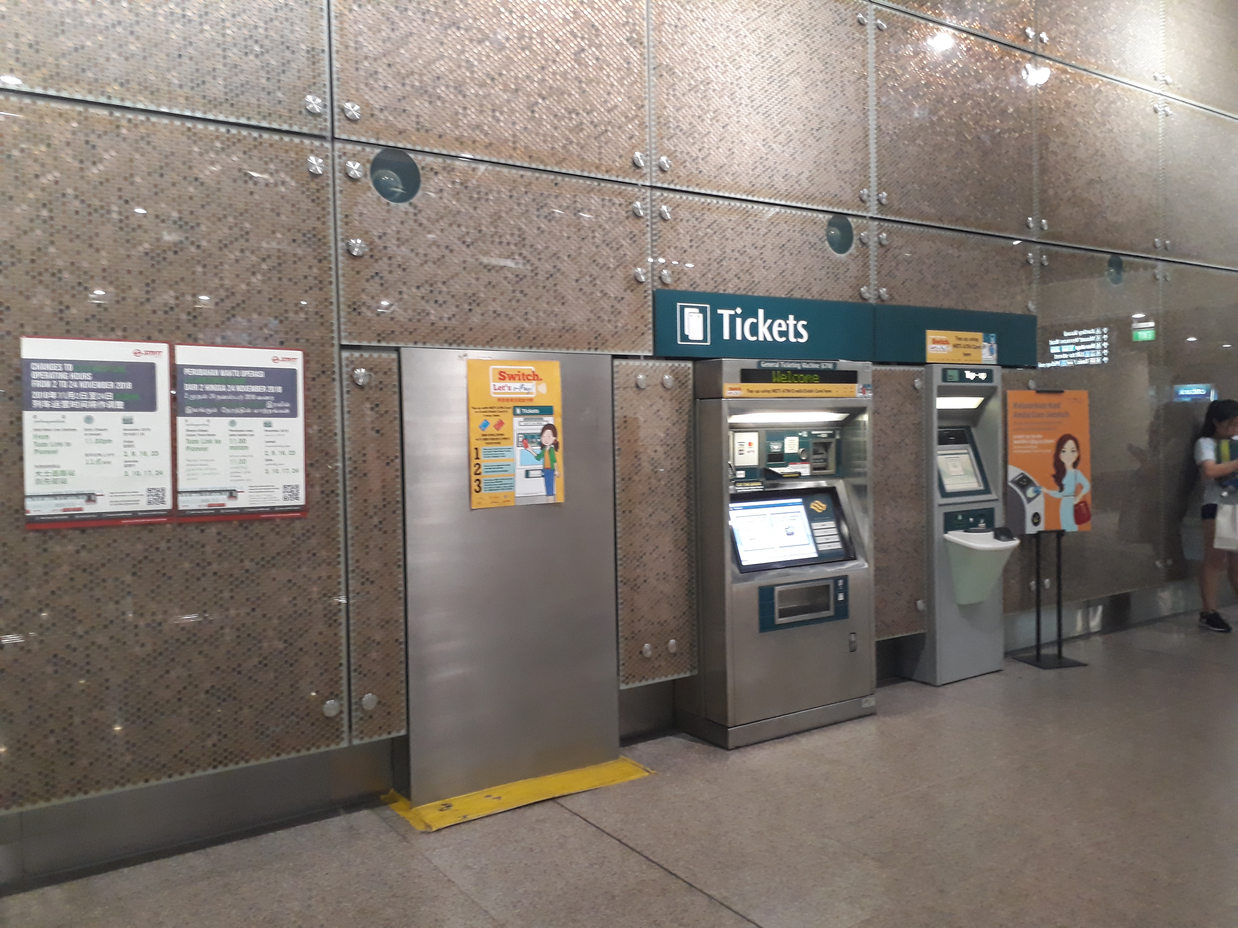 Ticket machines and Art-in-tranist